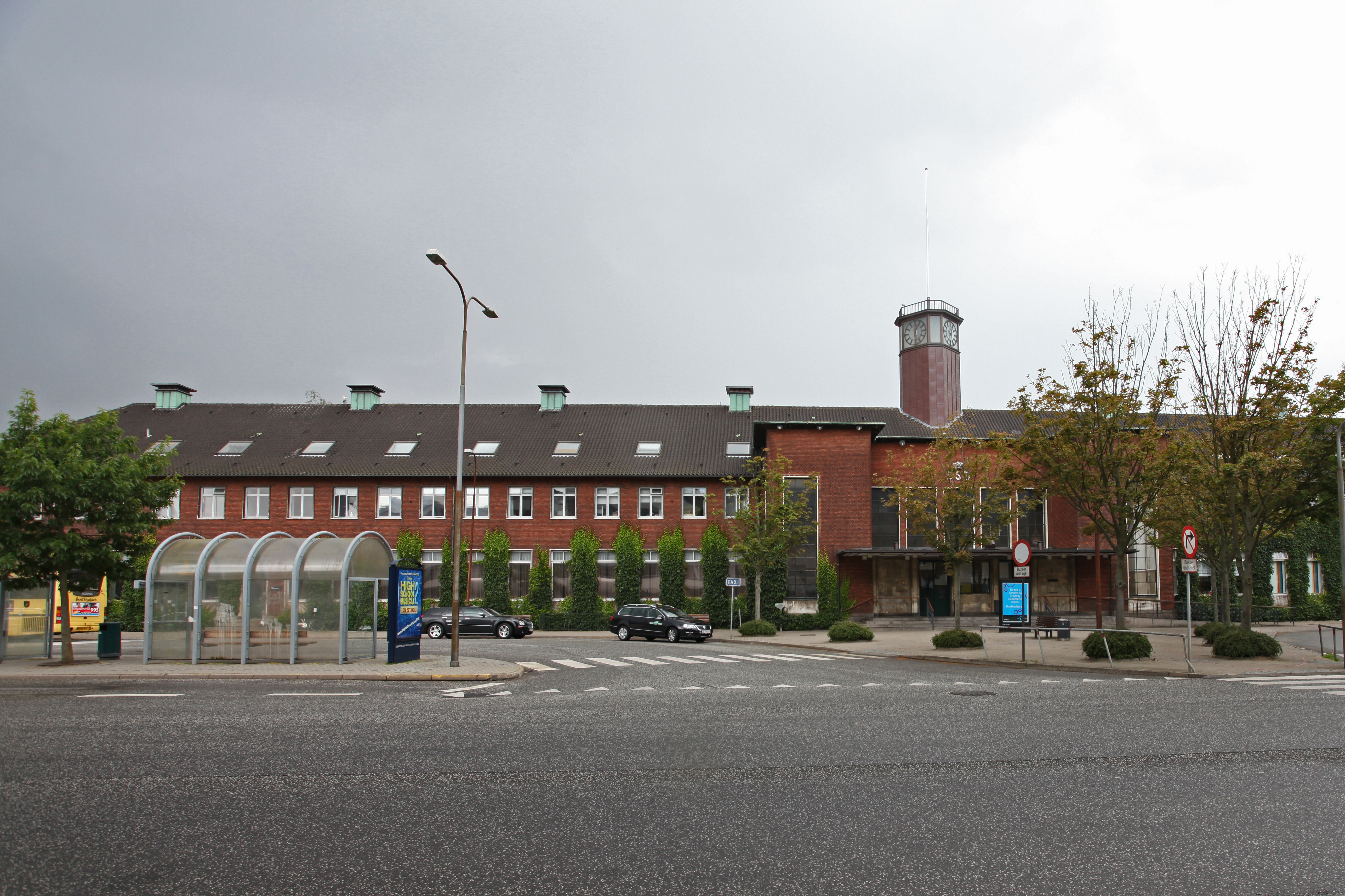 Picture of Fredicia Railway Station (Fyn - Denmark)